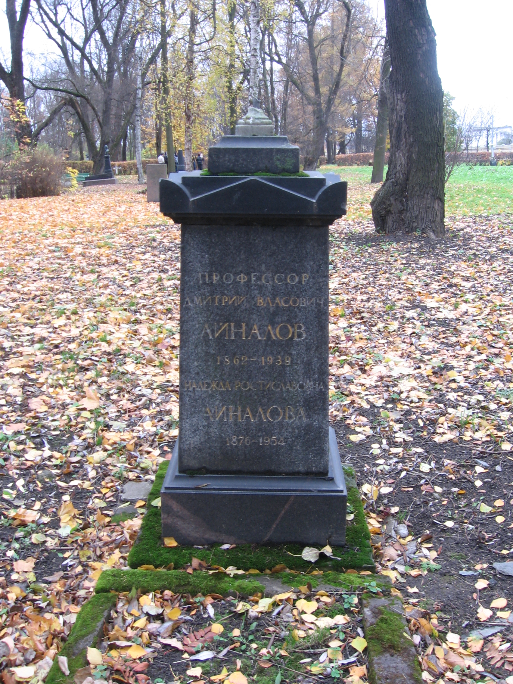 Grave of D. V. Ainalov